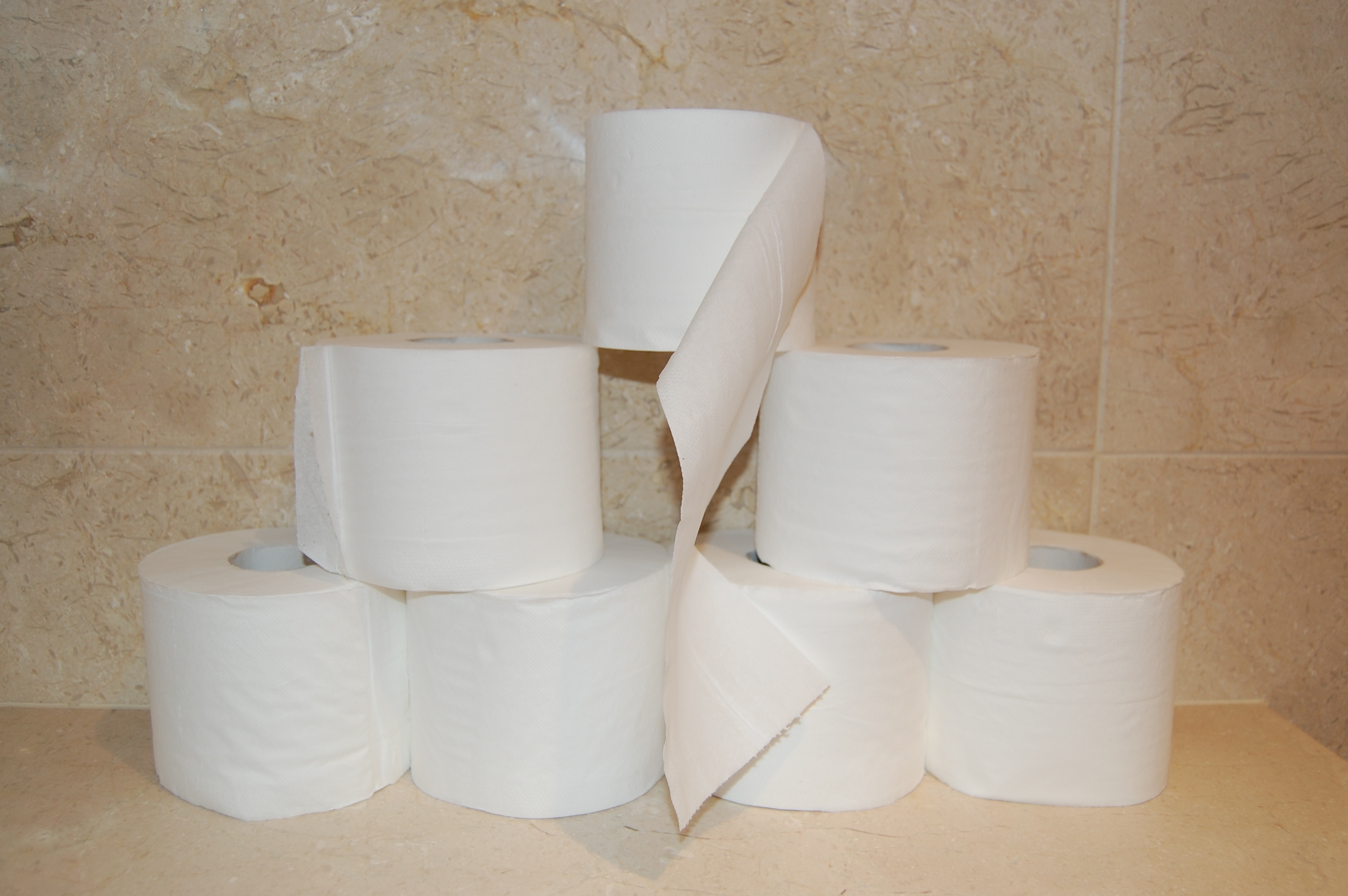 A tower of toilet paper rolls